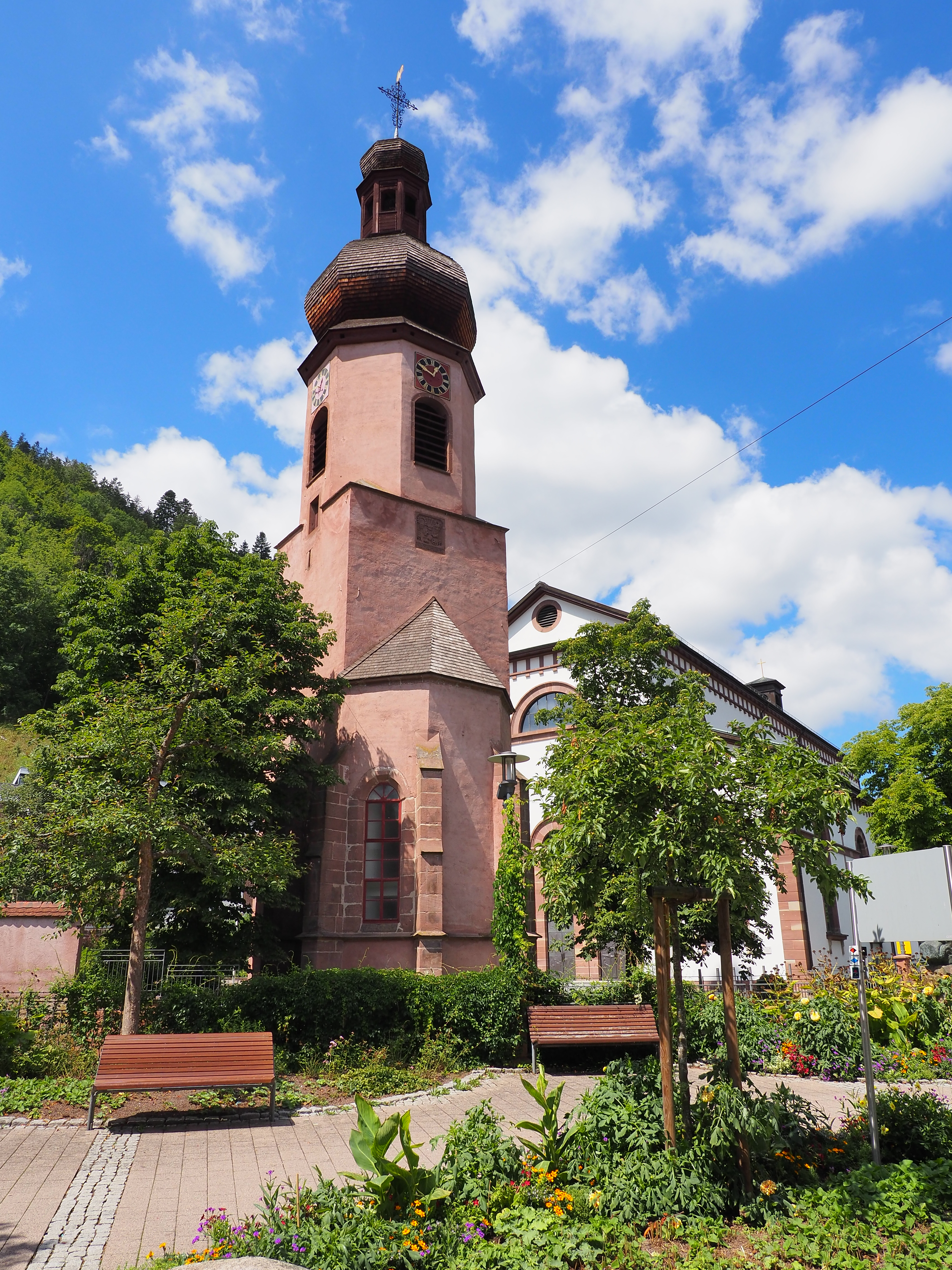 bell tower of St. Maria